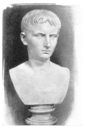 Bust of Augustus as a young man. Photograph by Maxwell Wolf, from The young Augustus*.